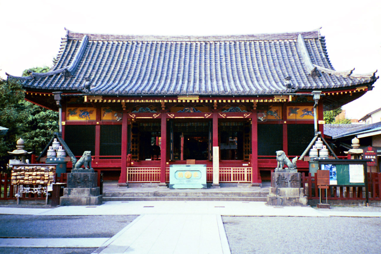 Asakusa Shrine was built in 1649, as a Shinto shrine that coexists with the (Buddhist) Asakusa Kannon Temple.